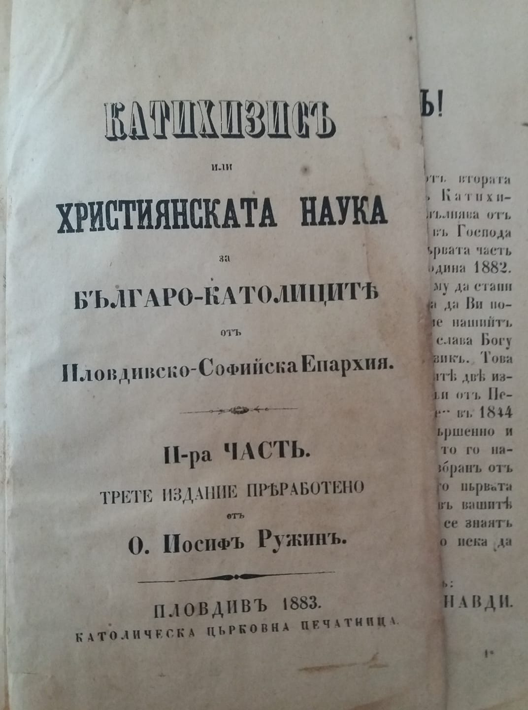 Textbook on catechism of the Roman Catholic Diocese of Sofia and Plovdiv, 1883